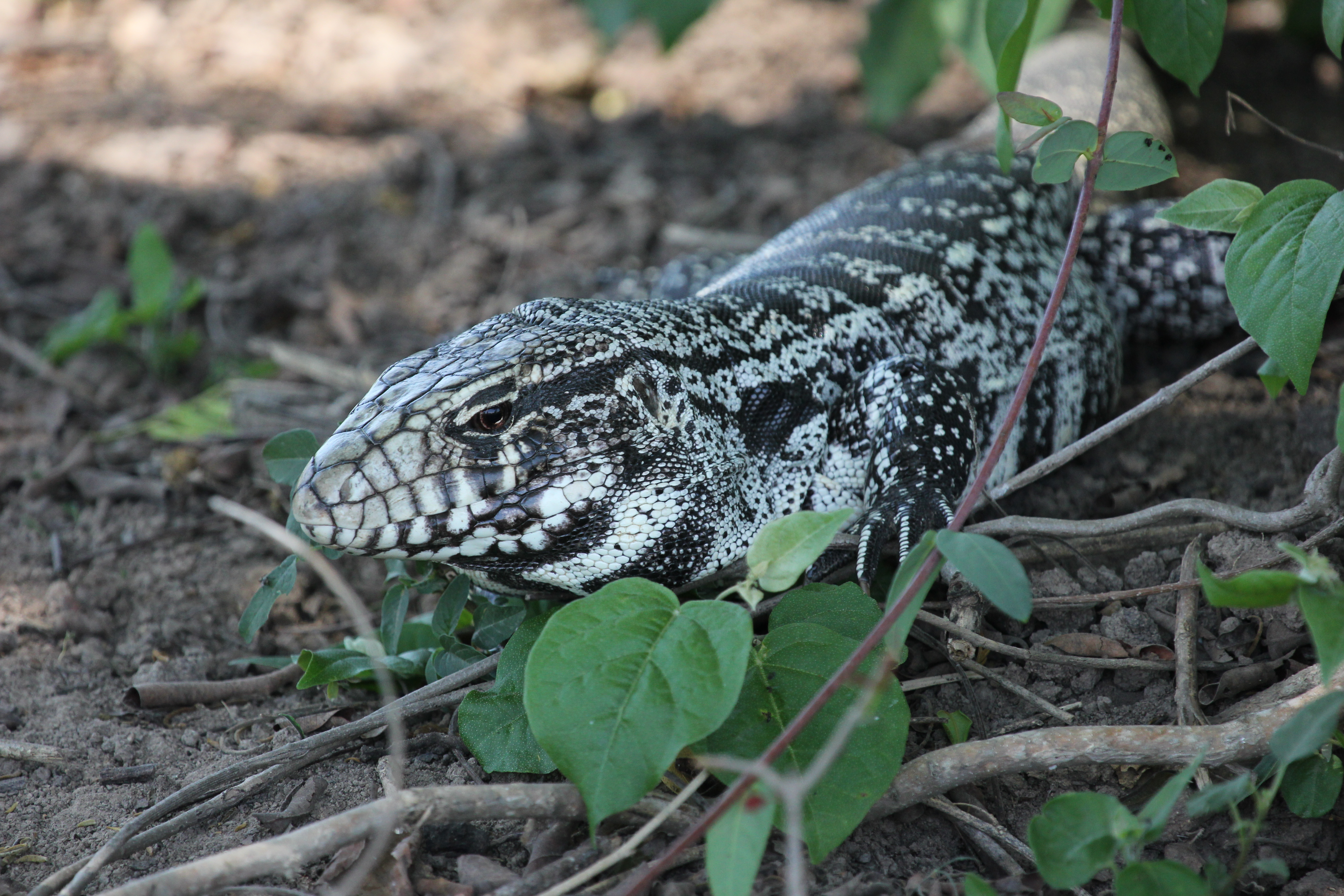 Argentine black and white tegu (Tupinambis merianae) in the Pantanal (Brazil)